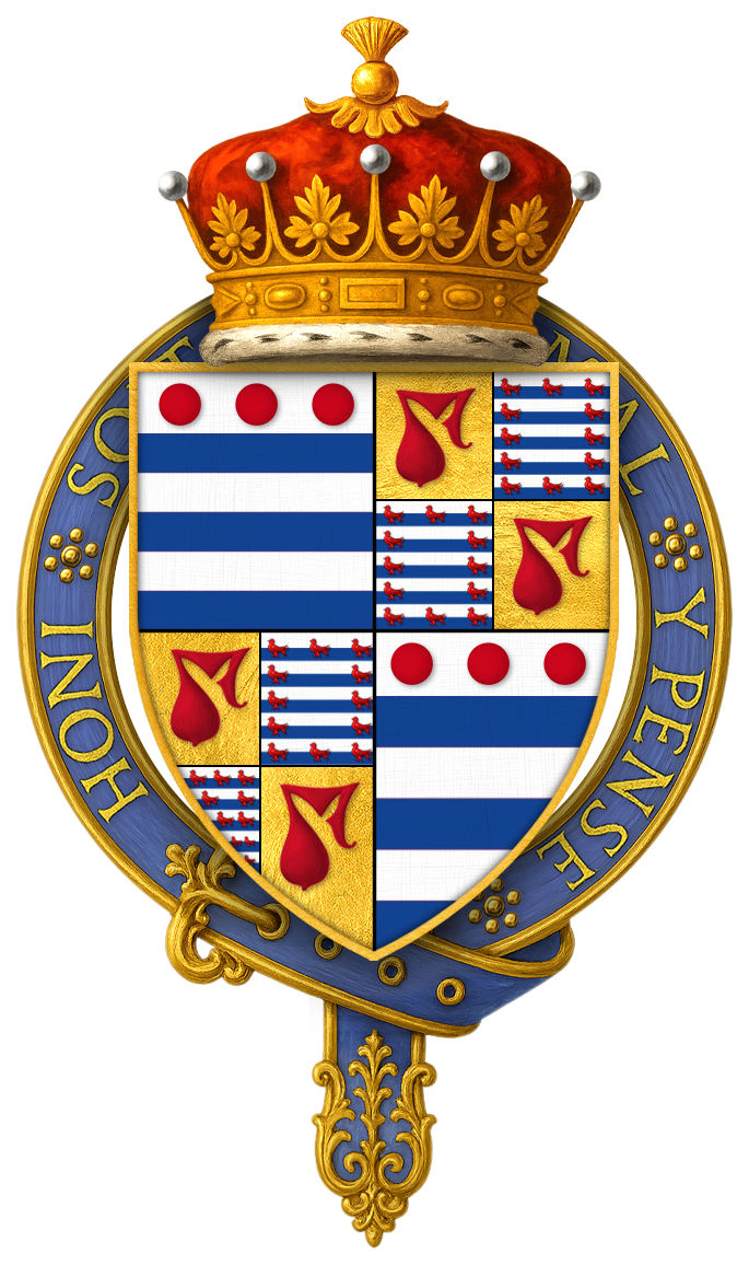 Coat of arms of Sir Richard Grey, 3rd Earl of Kent, KG See Kent's stall plate, still intact, within its original stall at St. George's Chapel. Arms are quarterly: 1 and 4, barry of six argent and azure, in chief three torteaux (for Grey); 2 and 3, or a maunch gules (for Hastings) quartering barry of ten argent and azure an orle of martlets gules (for Valence).